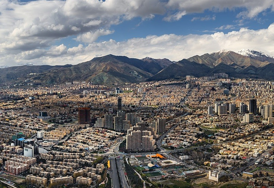 North part of Tehran photographed from the top of Milad tower in a clean air.